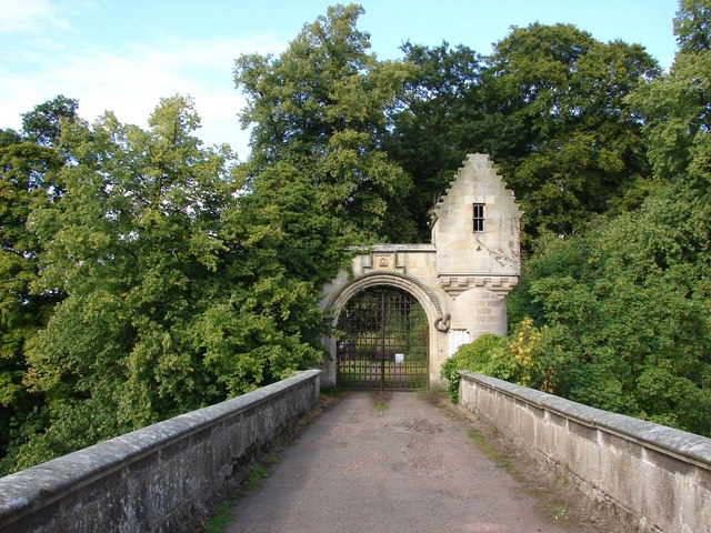 Bridge over Clyde to Milton-Lockhart grounds